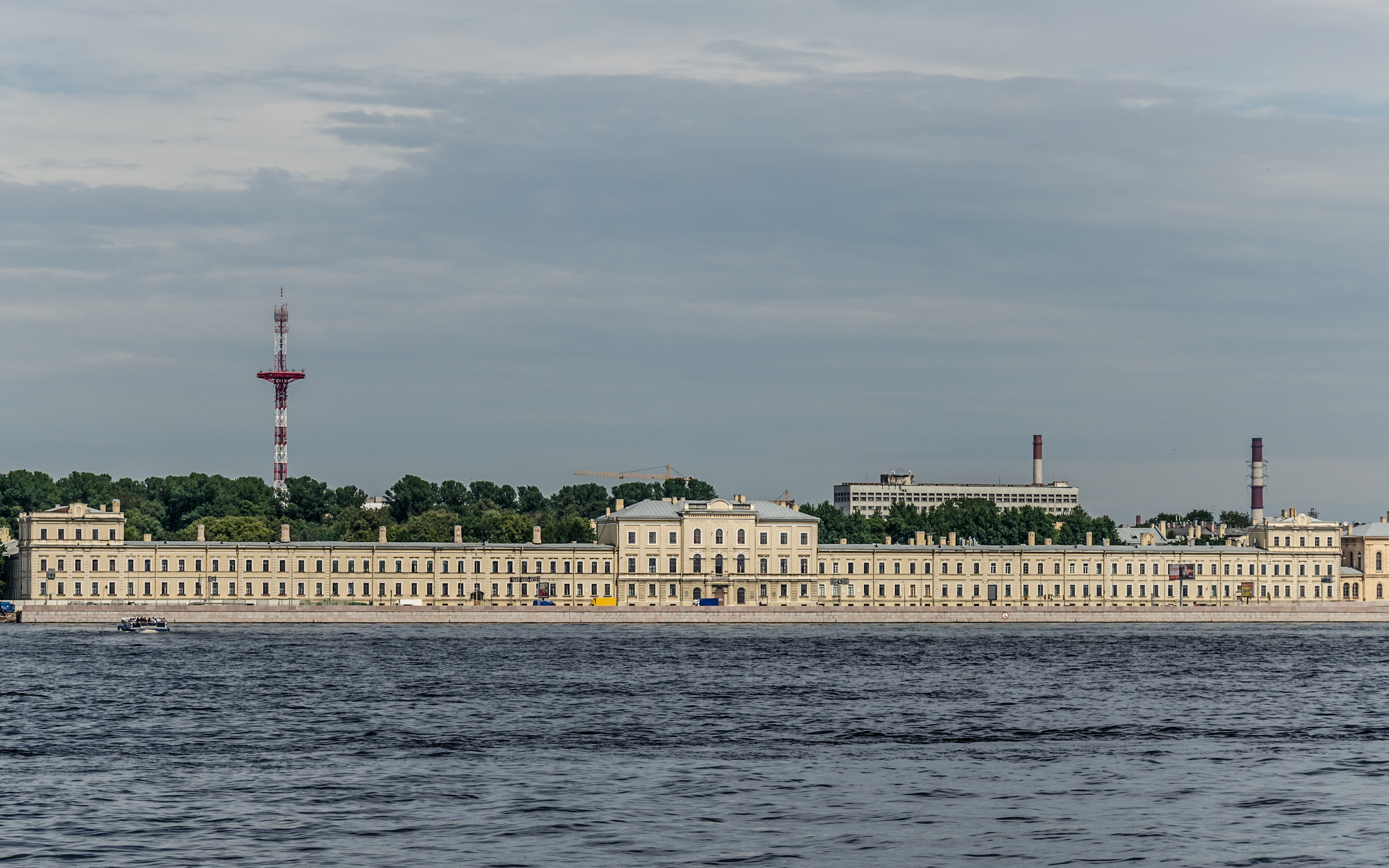 Russian Medical Military Academy clinic building in Saint Petersburg